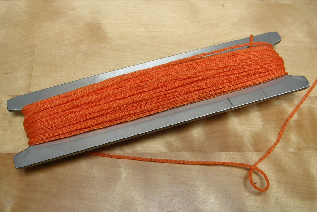 Stainless steel line wrapper (18cm) with line (20m).